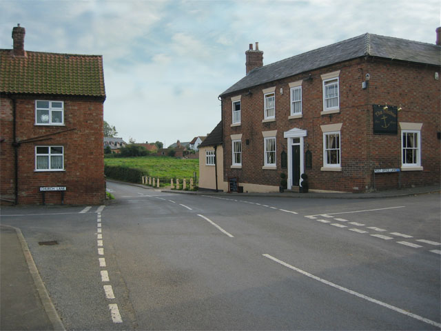 The Anchor, Plungar, Leicestershire. The Anchor is on the cross roads of Post Office Lane, Church Lane and Granby Lane